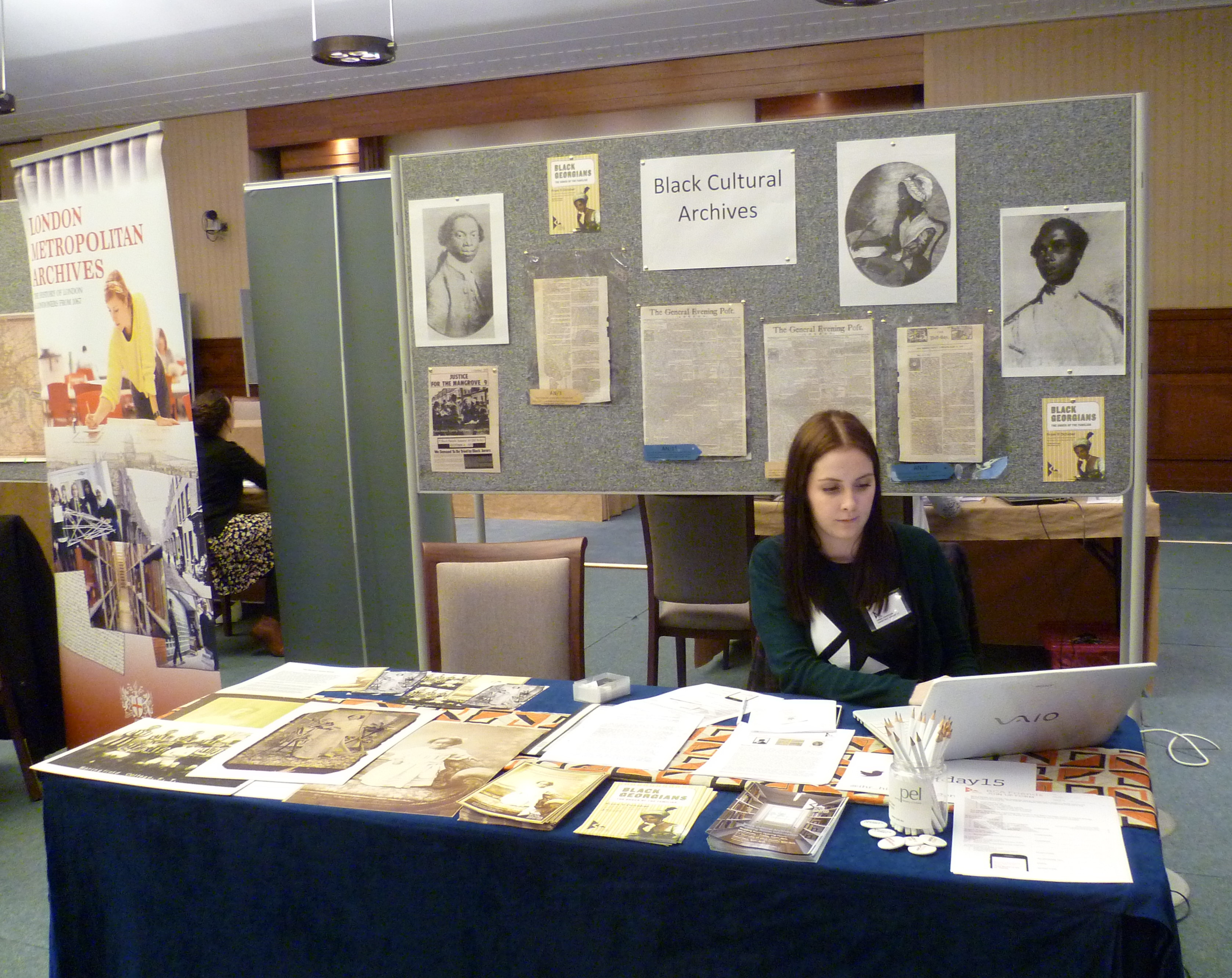 Black Cultural Archives School Adv Studies History Day 27 Nov 2015